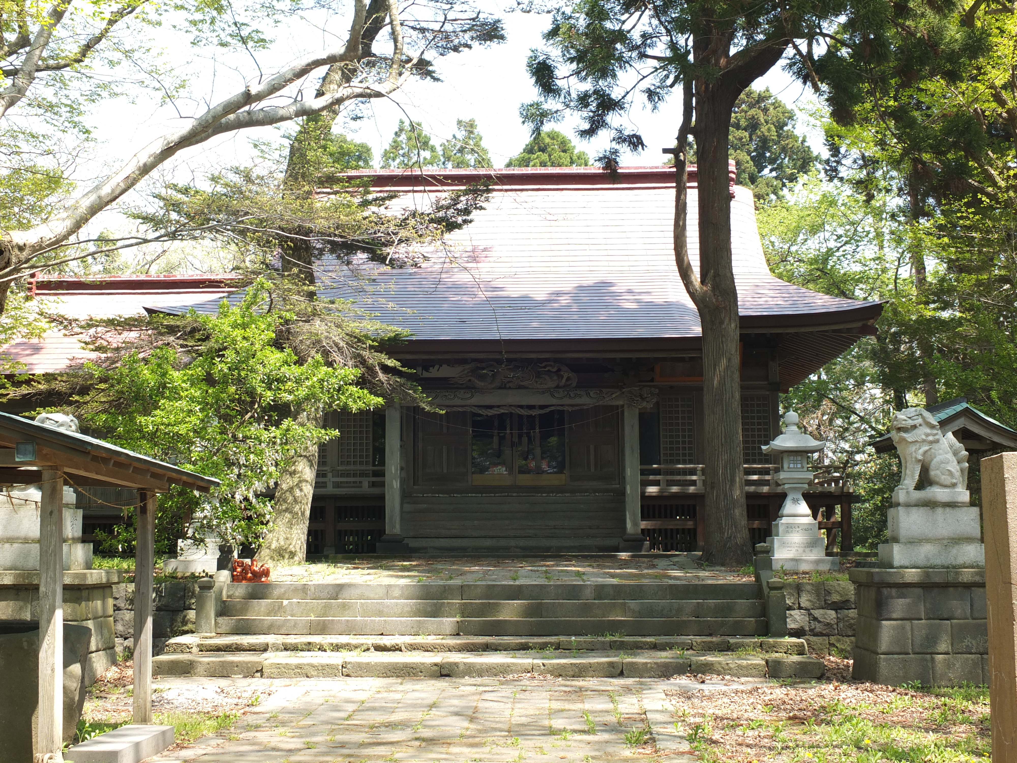 Touko Yasaka Shrine in Katagami City, Akita Prefecture, Japan